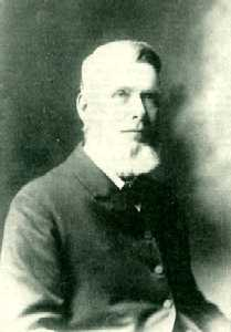 Charles Webb (1821–1898), architect born in England and active in Melbourne, Australia.